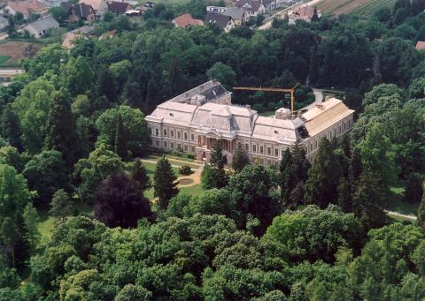 Lengyel, Hungary, aerialphotography